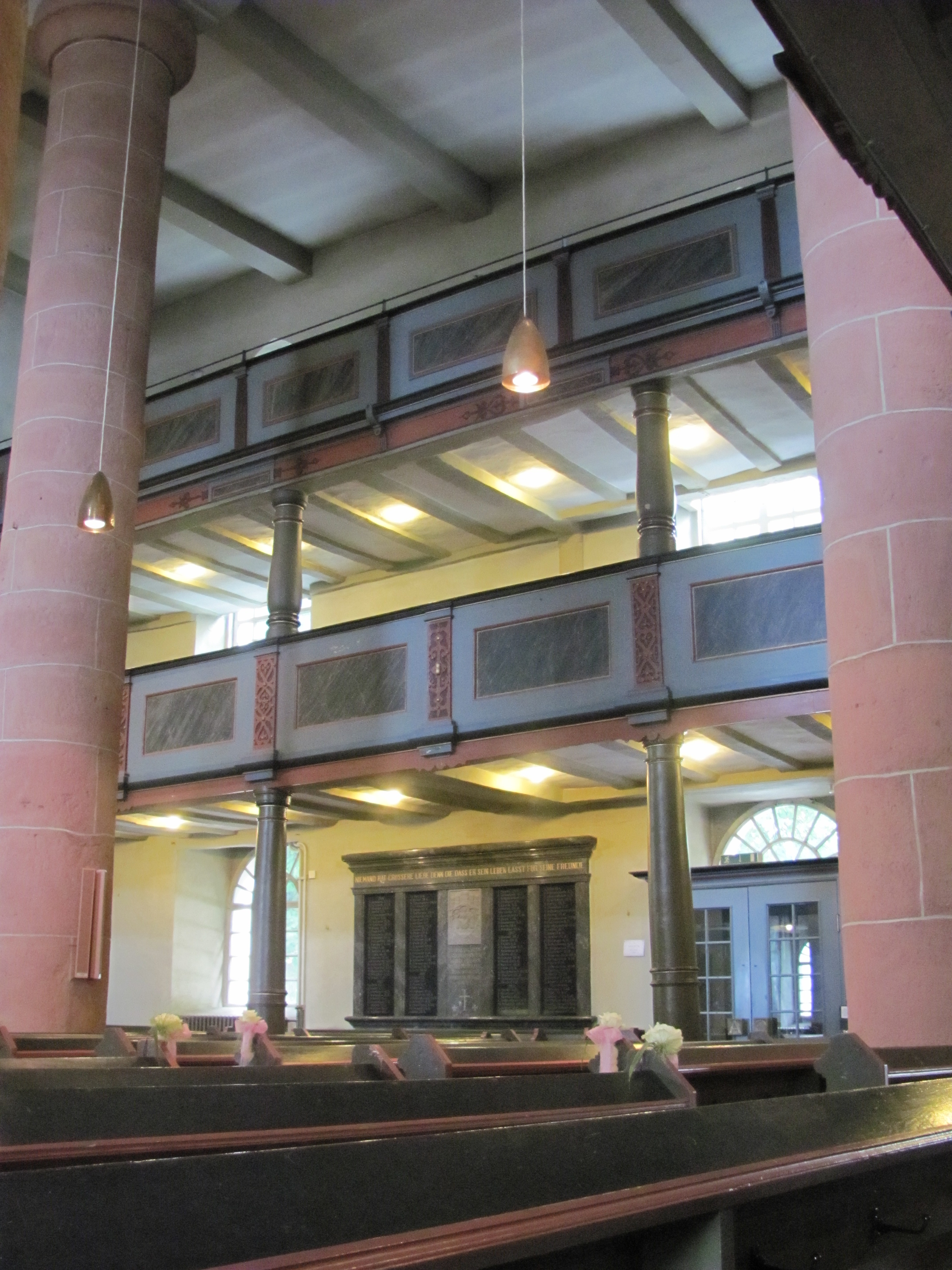 Stadtkirche Herborn, Hessen, Germany